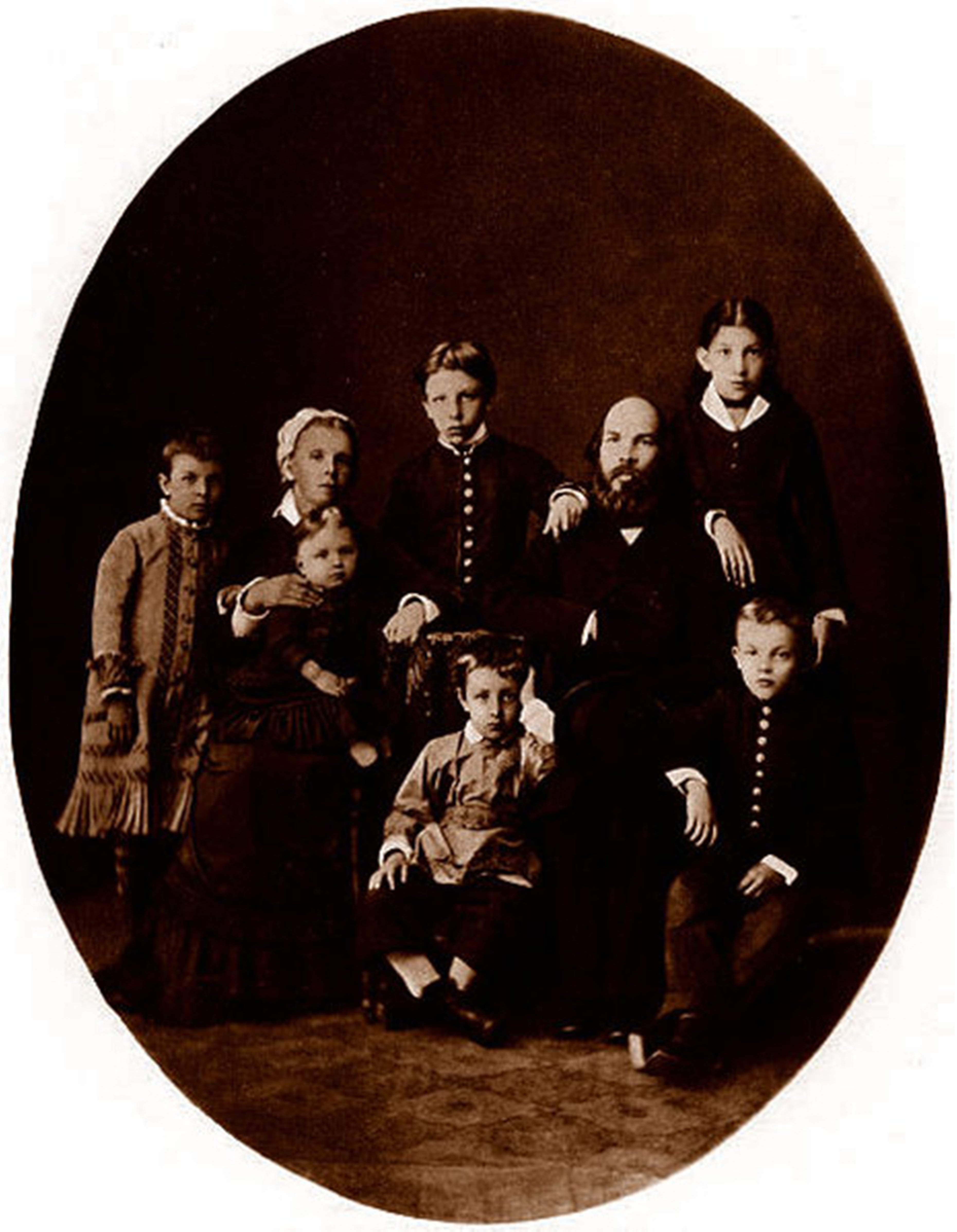 Ulyanov family, including Vladimir Ilyich Lenin